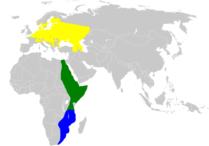 yellow - native breeding, blue - native nonbreeding, light green - passage